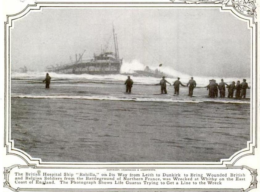 Photograph of the steamship Rohilla grounded at Whitby, England in 1914